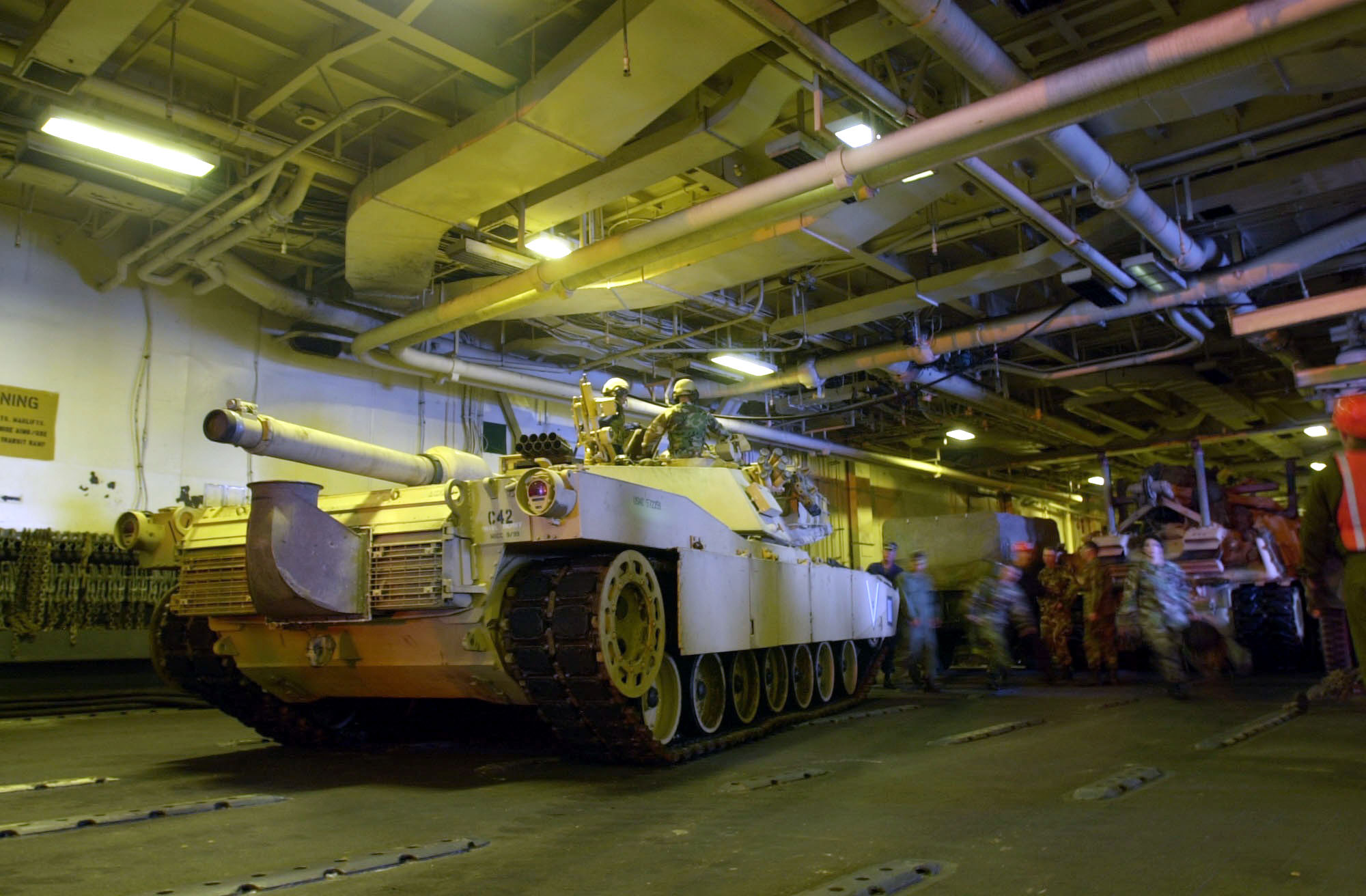 010323-N-9818S-001 ABOARD USS TARAWA (Mar. 23, 2001)-- Marines embarked on USS Tarawa (LHA 1) load equipment in the Well Deck area of the ship in support of "Exercise Kernel Blitz 2001". Kernel Blitz a large-scale amphibious landing exercise of approximately 25 ships, 75 aircraft and 15,000 military members representing four nations. U.S. Navy Photo by Photographer's Mate 3rd Jennifer A. Smith (RELEASED)